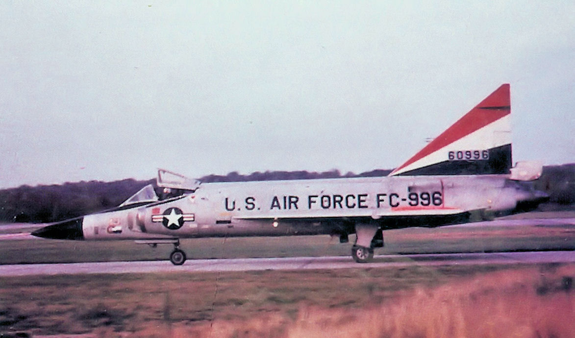 32d Fighter-Interceptor Squadron Convair F-102 Delta Dagger 56-0996